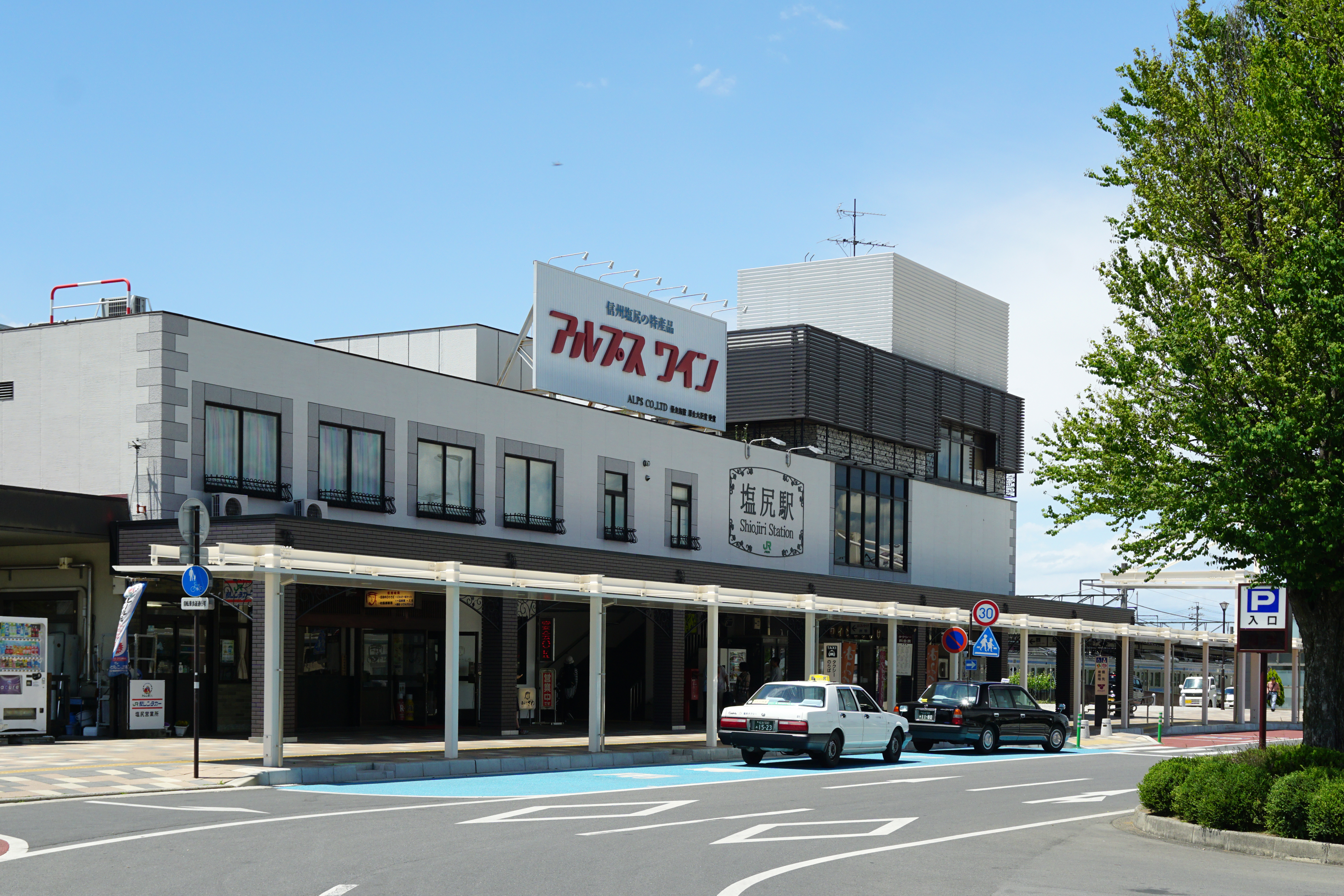 Shiojiri Station, Shiojiri, Nagano prefecture, Japan